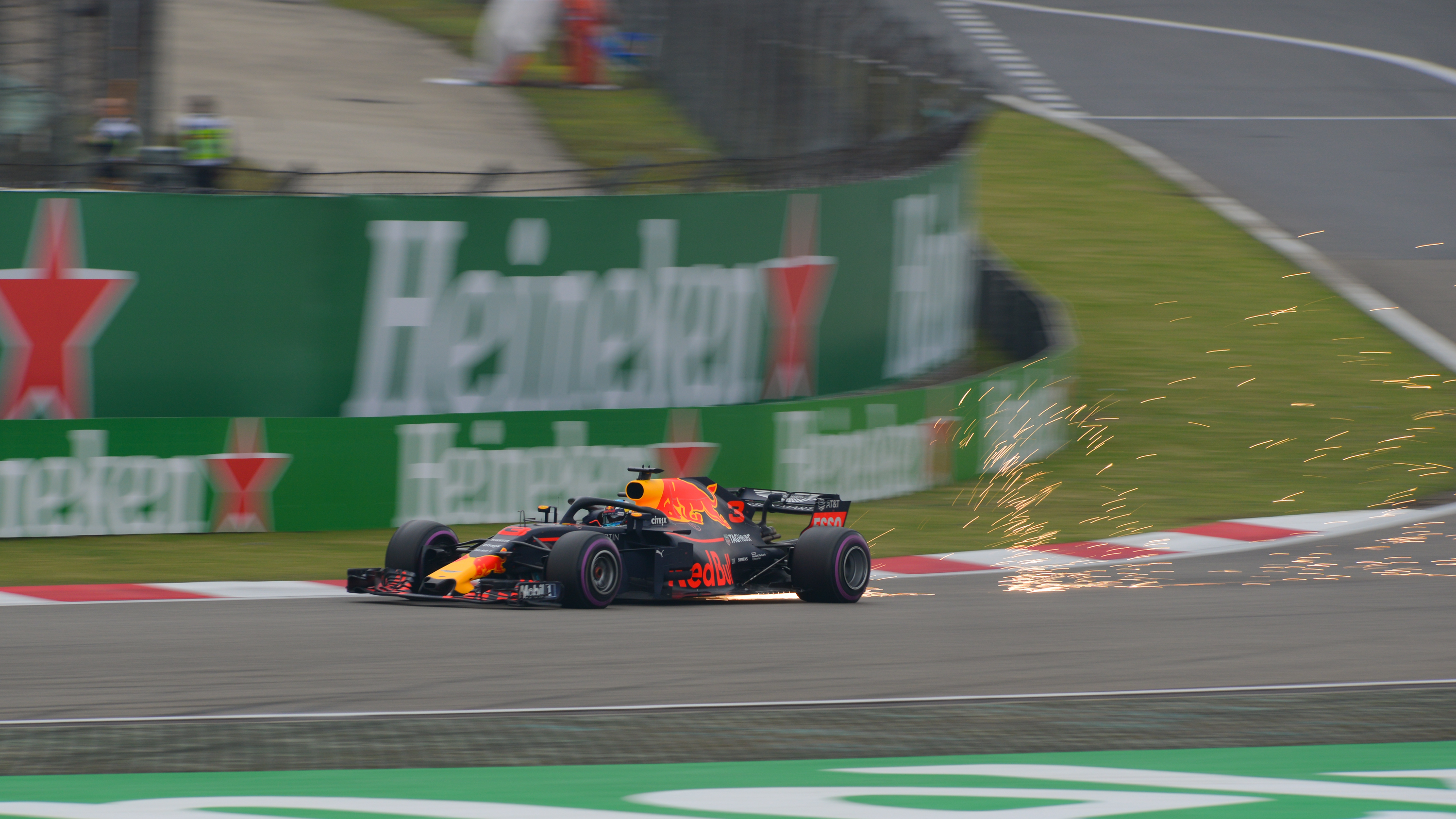 Red Bull Racing TAG Heuer